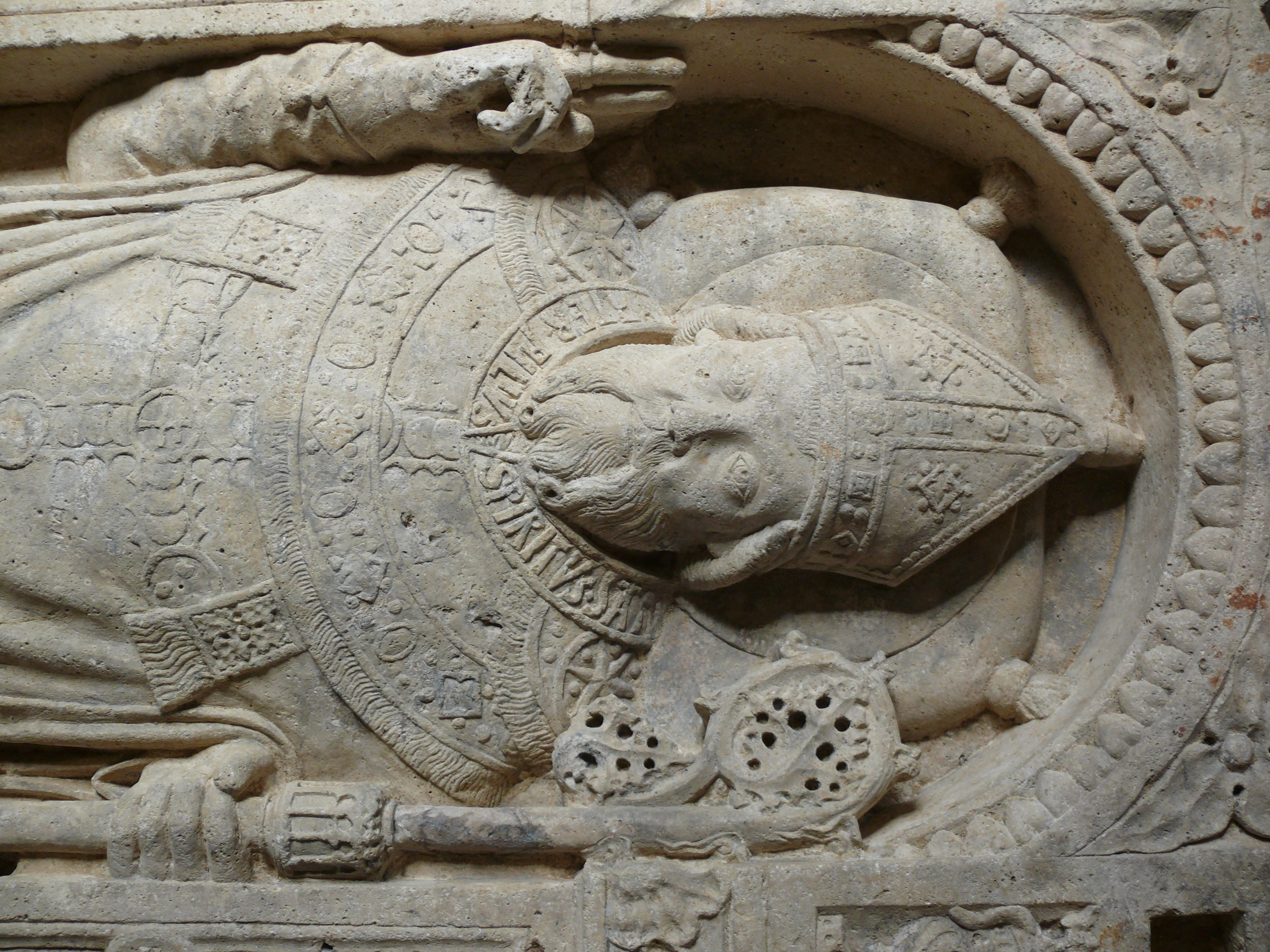 Funerary monument of Saint Mansuy (second half of 4th century), the first bishop of Toul in the Musée d'Art et d'Histoire de Toul. Saint Mansuy was interred in the necropolis bordering the ancient road to Metz, north of Toul. First an oratory, later a benedictine abbey was erected at this site. This limestone monument was carved at the beginning of the 16th century, it shows a lying prelate, dressed in the pontifical ornaments of the bishops of toul of the era. He wears a mitre and a cross and a ‘’surhuméral’’ (a small piece of clothing typical for the Toul diocese). His feet rest on a lion, symbol of vigilance. The little kneeling figure at his feet, holding a round object, reminds one of the miracle of the drowned child.